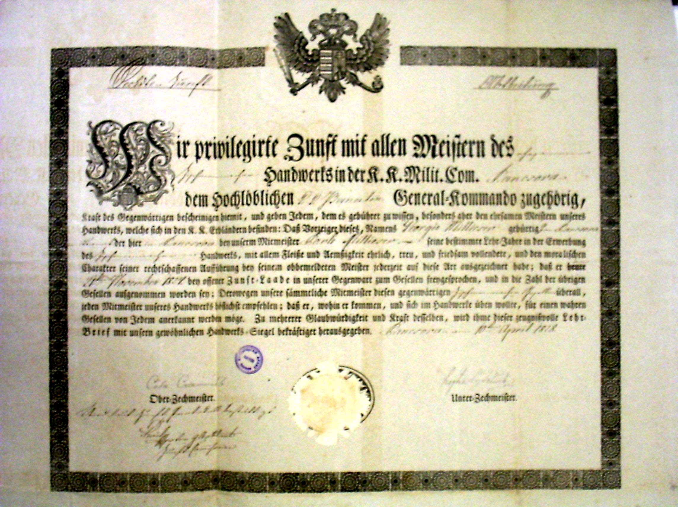 Kalfën letter, Pančevo